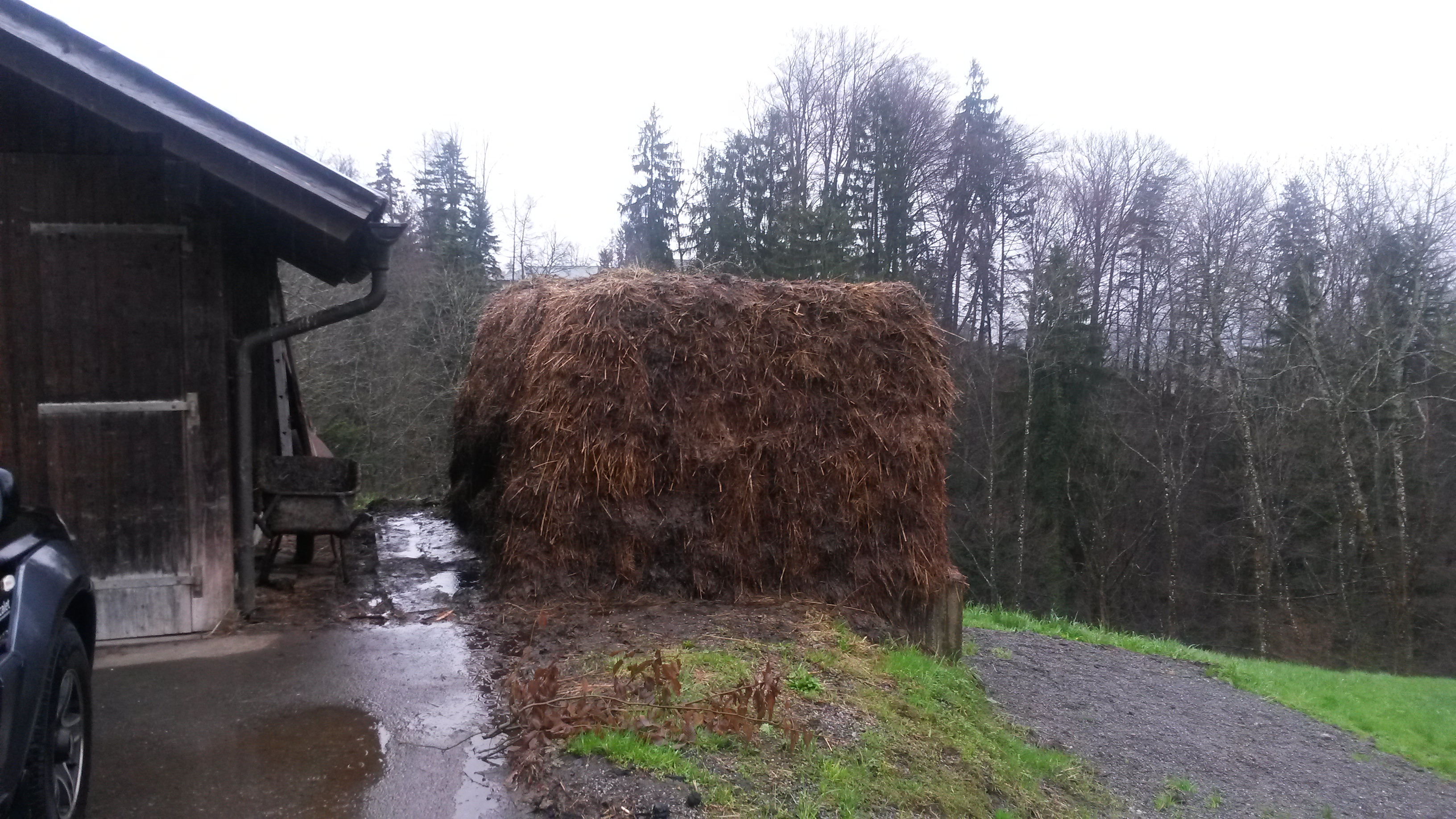 Hamlet Bantlingen in Dornbirn, Vorarlberg, Austria. Nice dung heap by the house Bantlingen no. 5